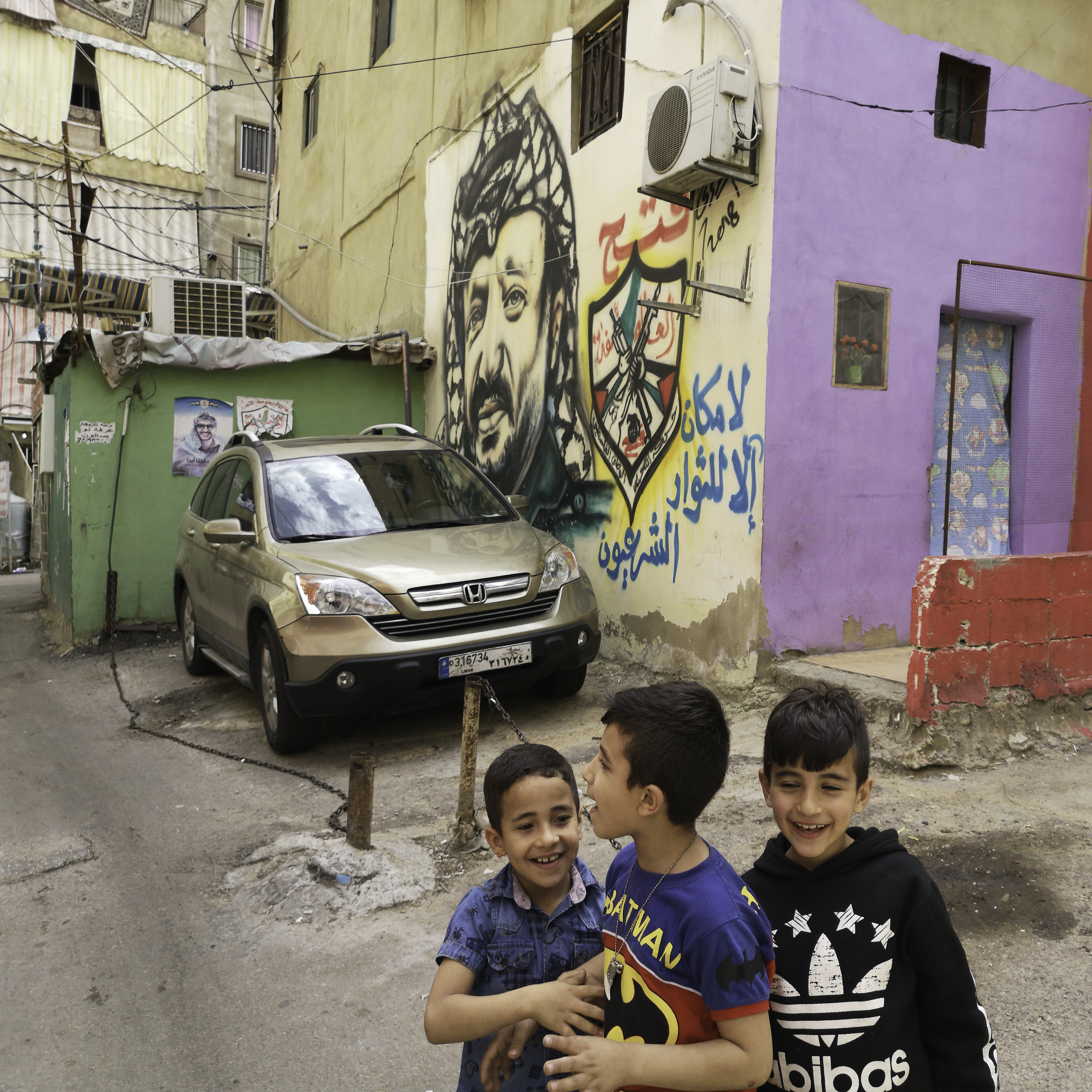 Street view of Shatila refugee camp